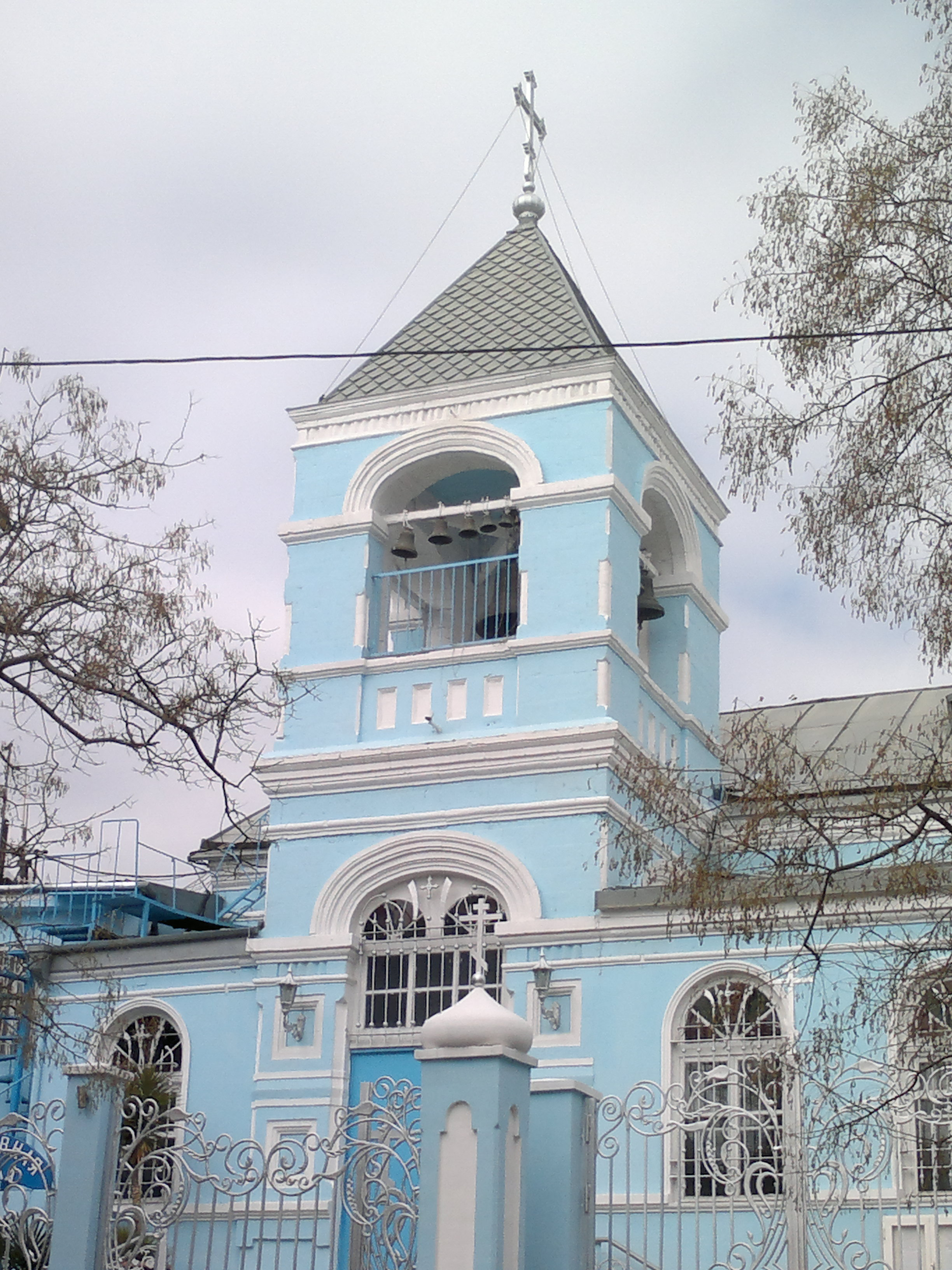 Russian-Orthodox Church on Shamil Azizbekov Street